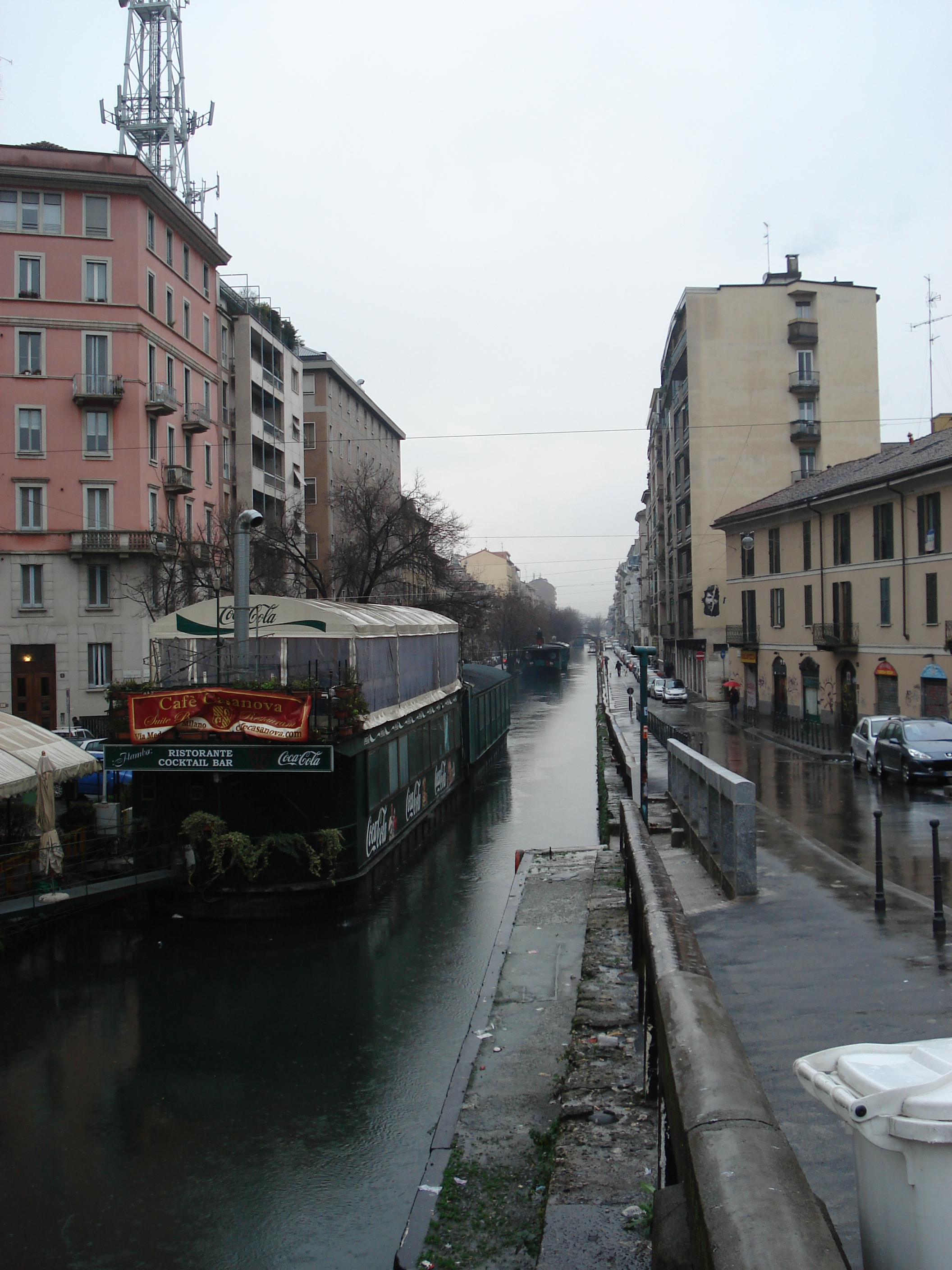 The "Naviglio pavese" (Pavia channel) in Milan (Italy), in the spot where it exits from the "Darsena" (former harbour). Picture by Giovanni Dall'Orto, January 23 2007.